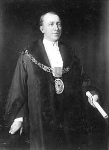 A portrait of John Lavington Bonython, Mayor of Adelaide ; a painting by the English born artist George A. J. Webb. DATE ca.1913 - This portrait is owned by the Adelaide City Council